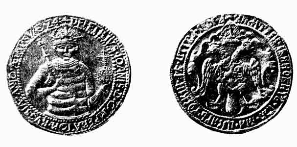 Medal of False Dmitriy I